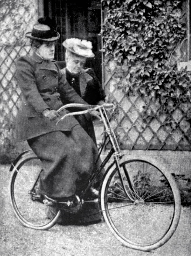 Frances E. Willard learning to ride a bicycle. Page 56 of A Wheel Within A Wheel